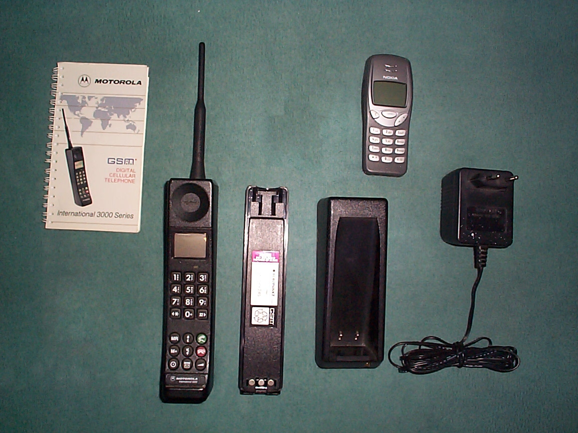 This is a photograph of a Motorola International 3200, its manual, a charger and a modern Nokia phone.